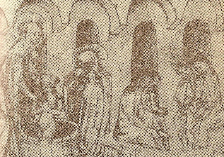 Hedwig of Andechs bathing her grandson Boleslaus II Rogatka of Silesia; Anna von Böhmen attending